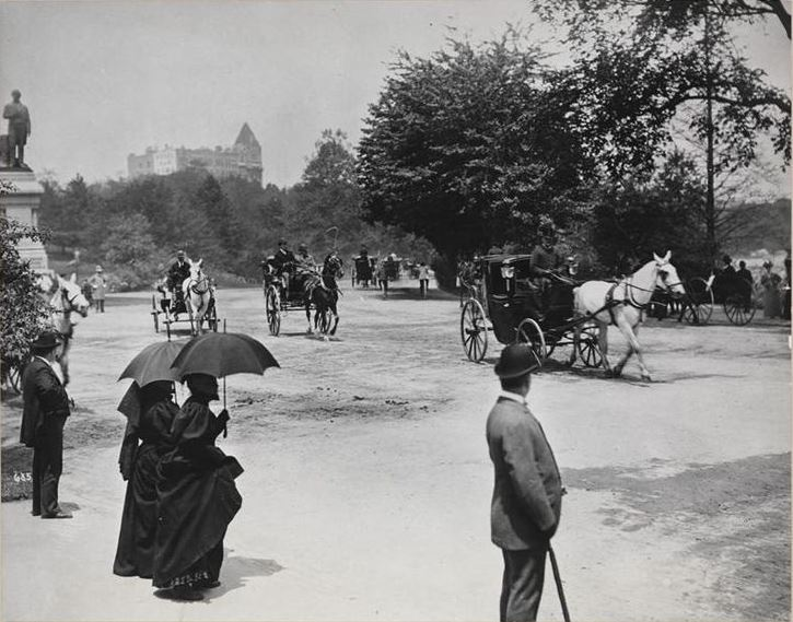 Central Park, New York 1894